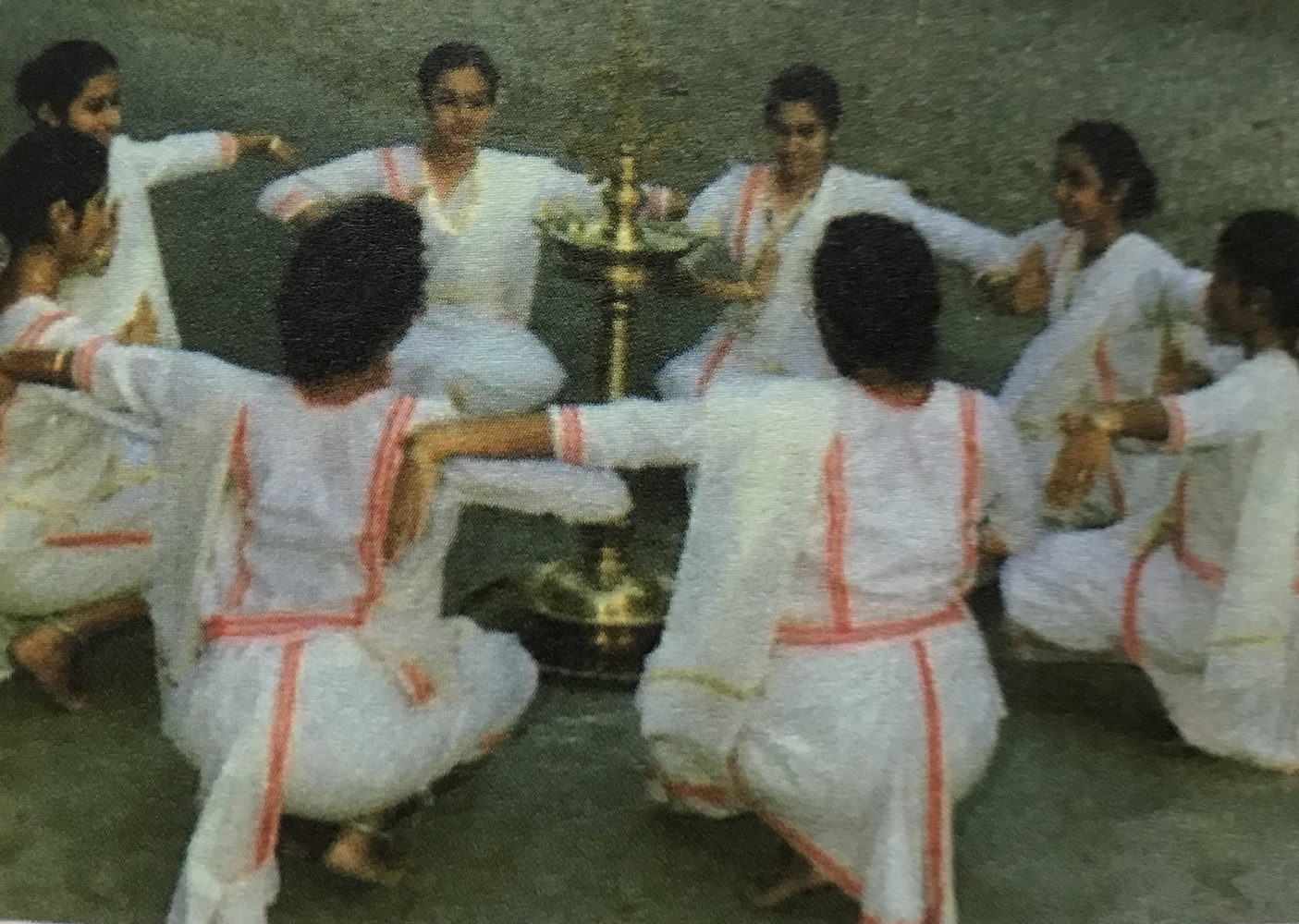 Margam Kali folk dance performed by Knanaya.